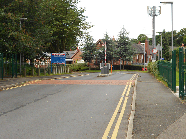 Sedgley Avenue